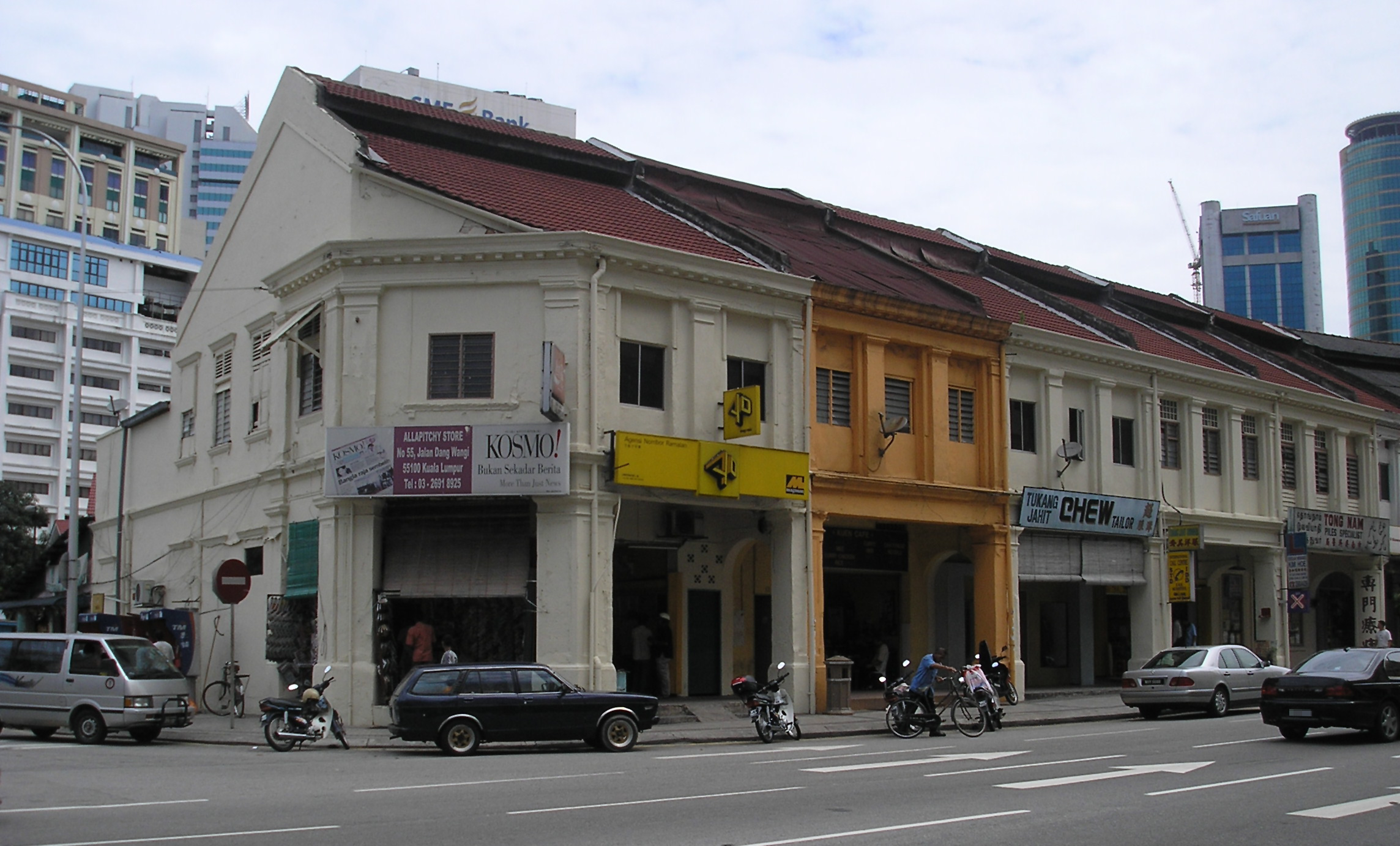 Shophouses along Campbell Road (now Jalan Dang Wangi) at the border between Chow Kit and central Kuala Lumpur, Malaysia.